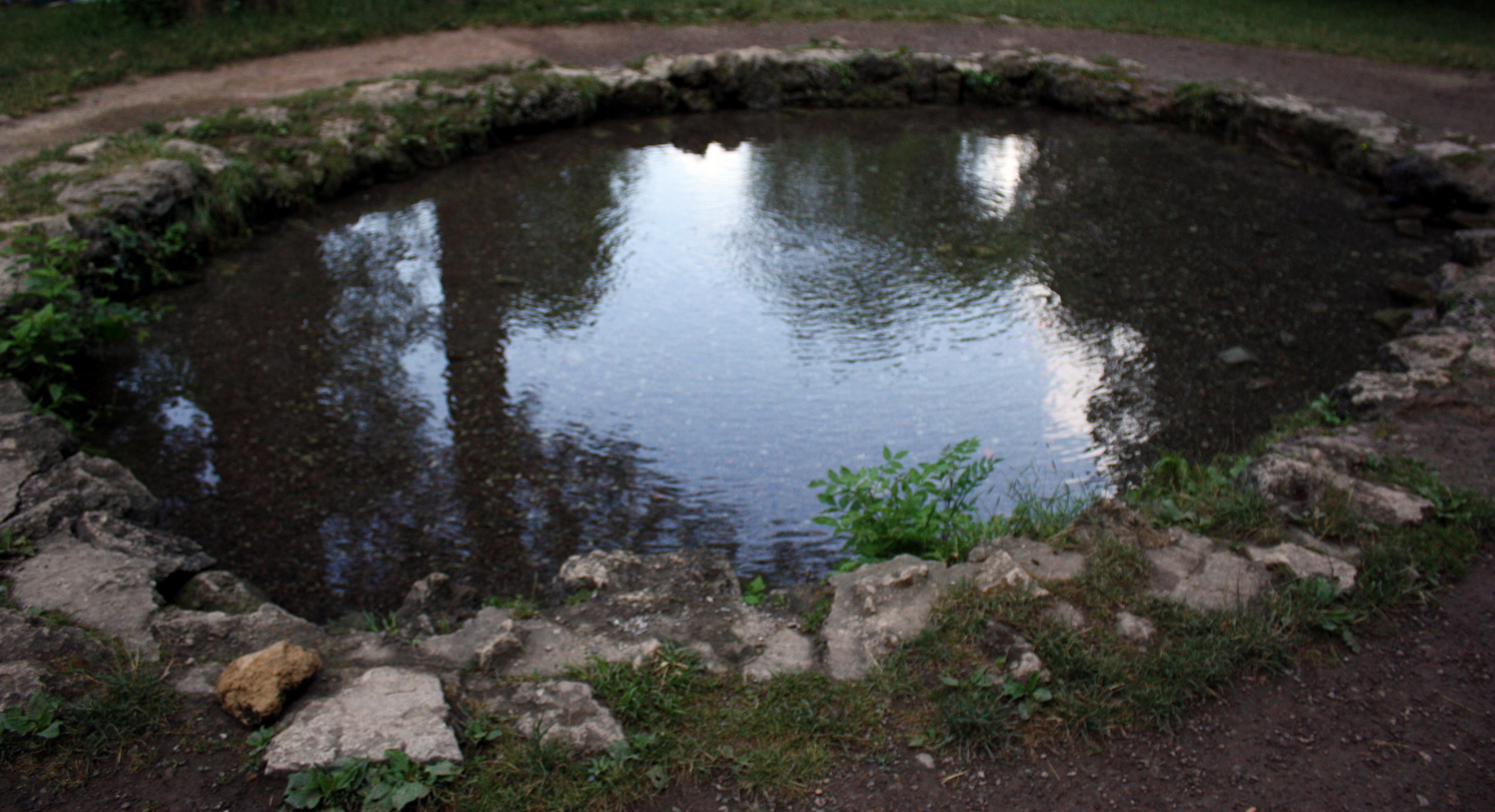 Source of the "Leutra" at "Ilmpark" Weimar/Germany.